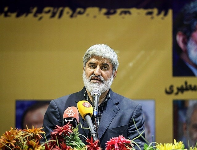 Ali Motahari in People's Voice convention